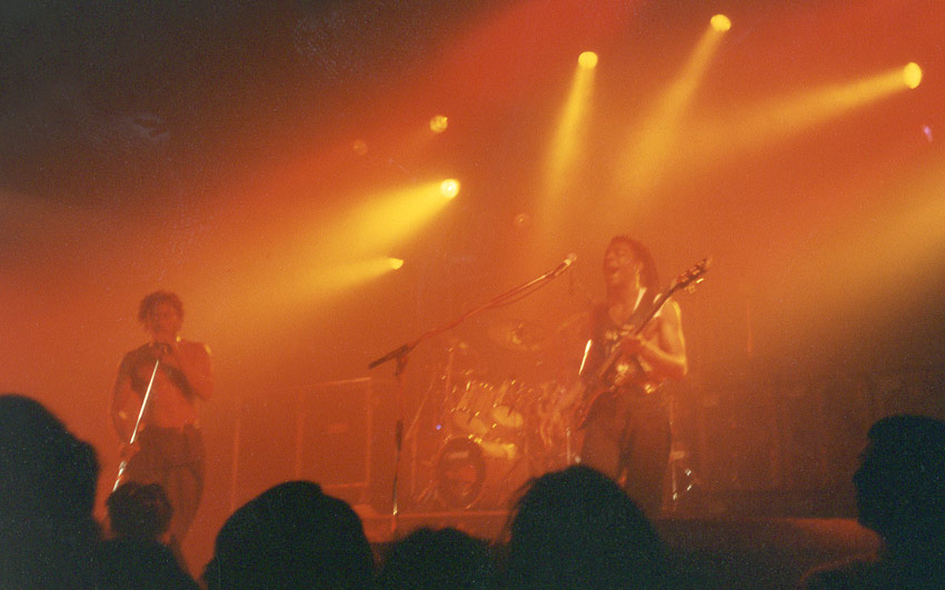 Living Colour, concert during the Stain tour at Bank-Austria-Zelt in Vienna, Austria. Left: Corey Glover, right: Doug Wimbish.